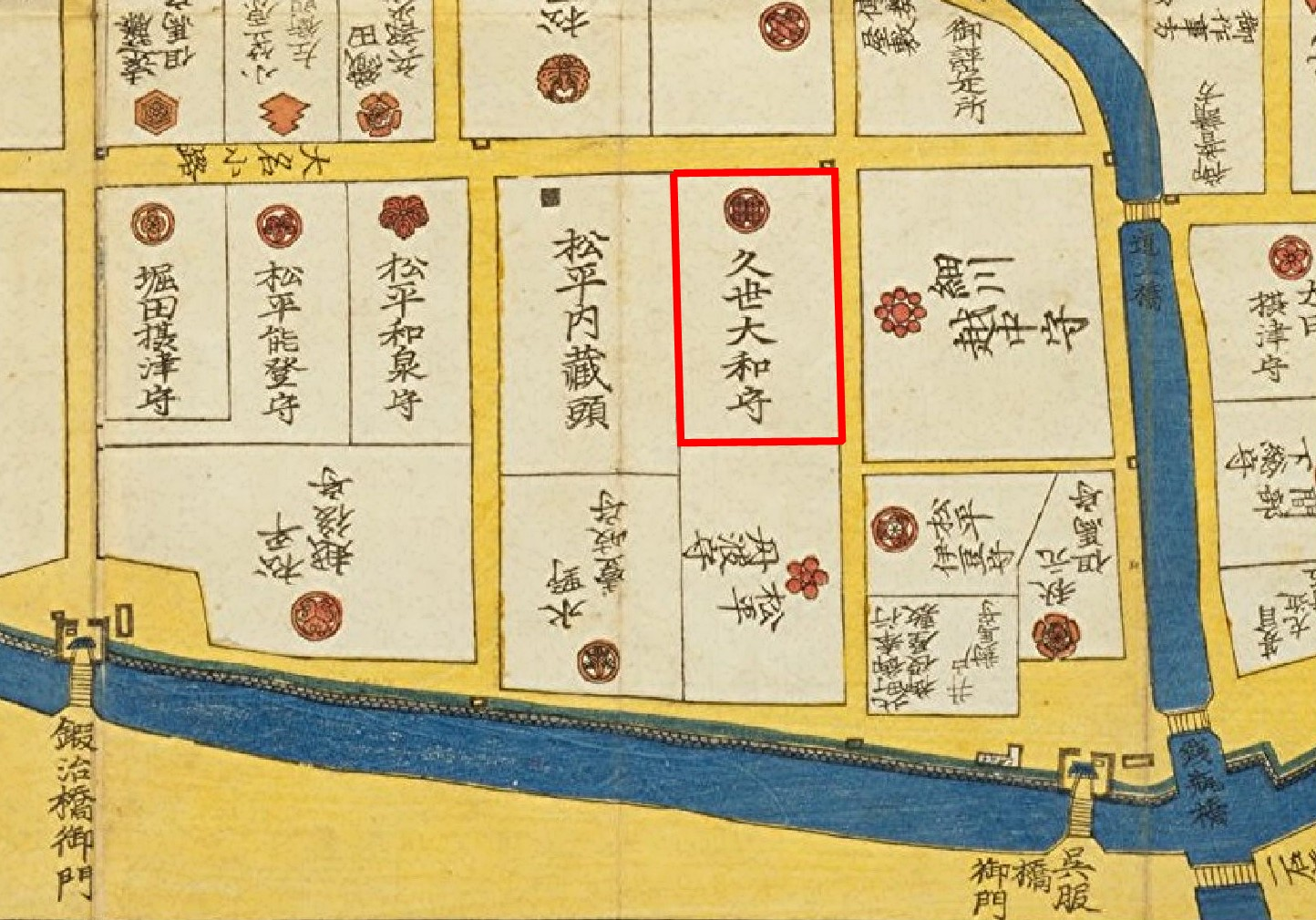 Residence of Kuze clan at Edo 2